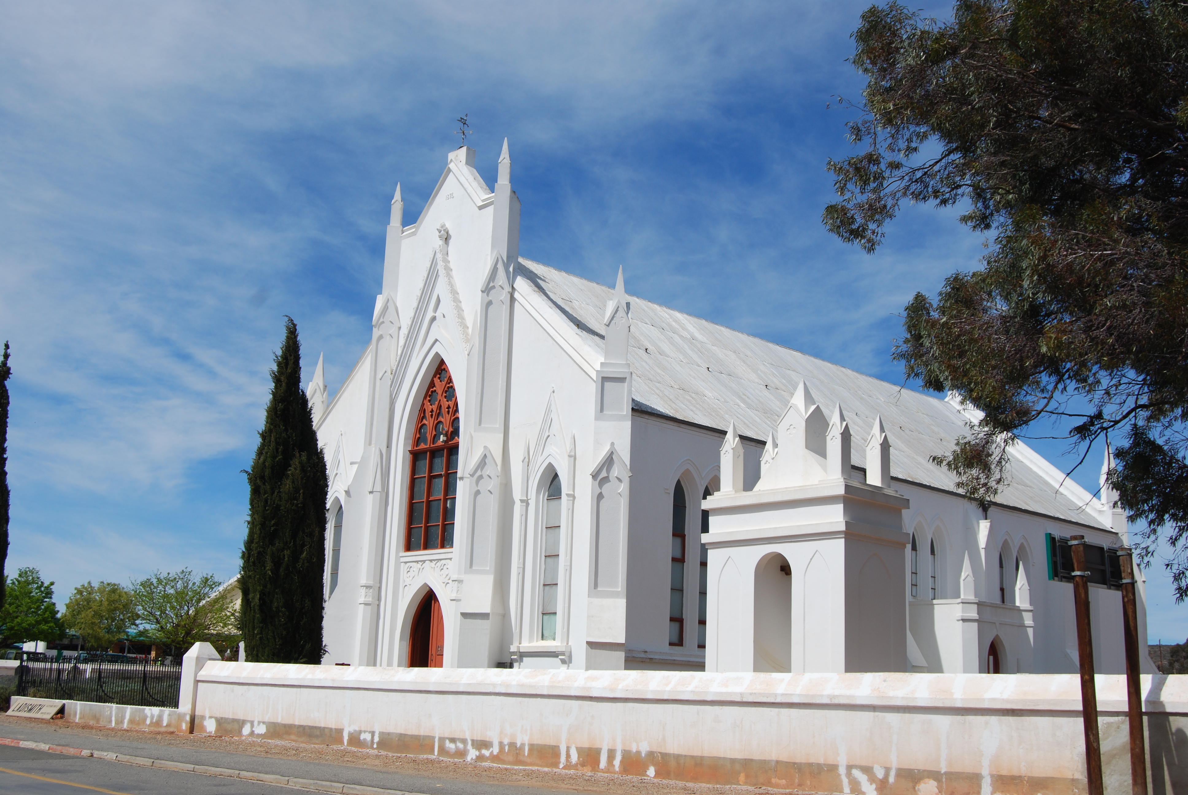 This media shows a South African Protected Site with SAHRA file reference 9/2/056/0004.